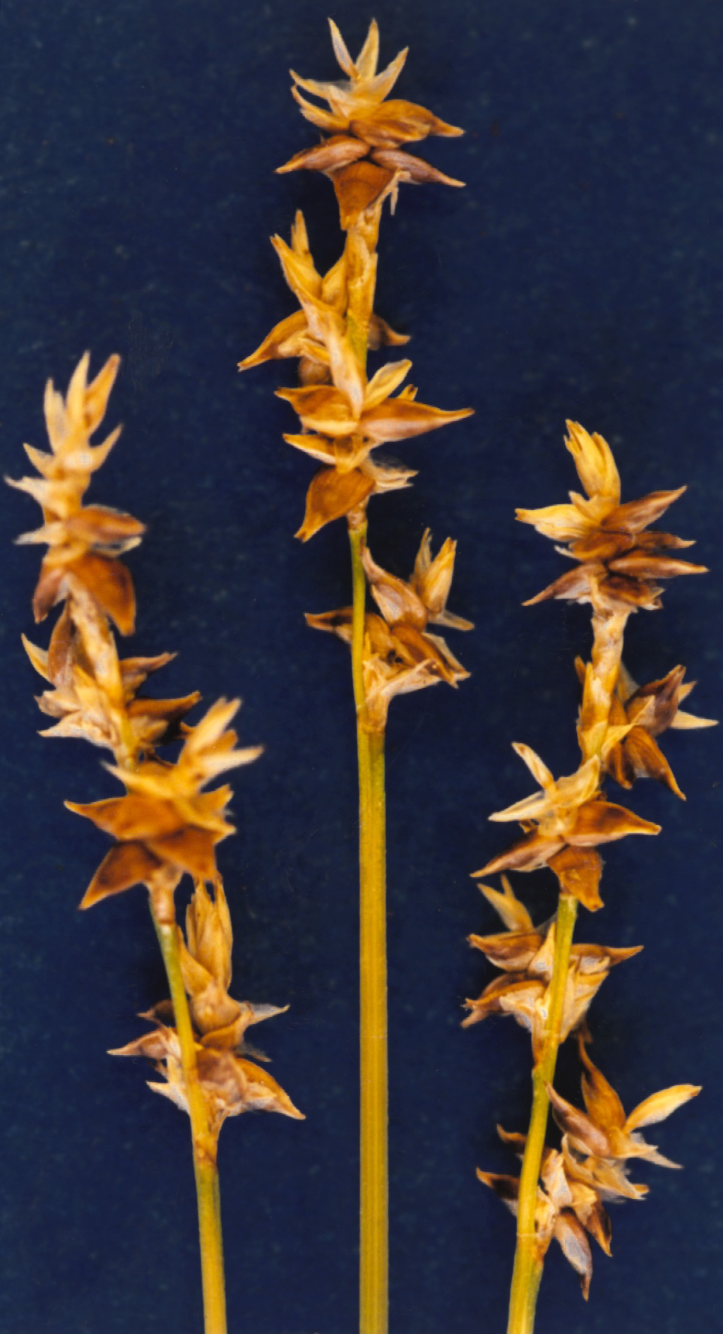 Carex interior L.H. Bailey (inland sedge)